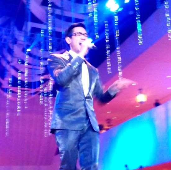 Afgan Syah Reza, Indonesian R&B singer, singing in a wedding ceremony.